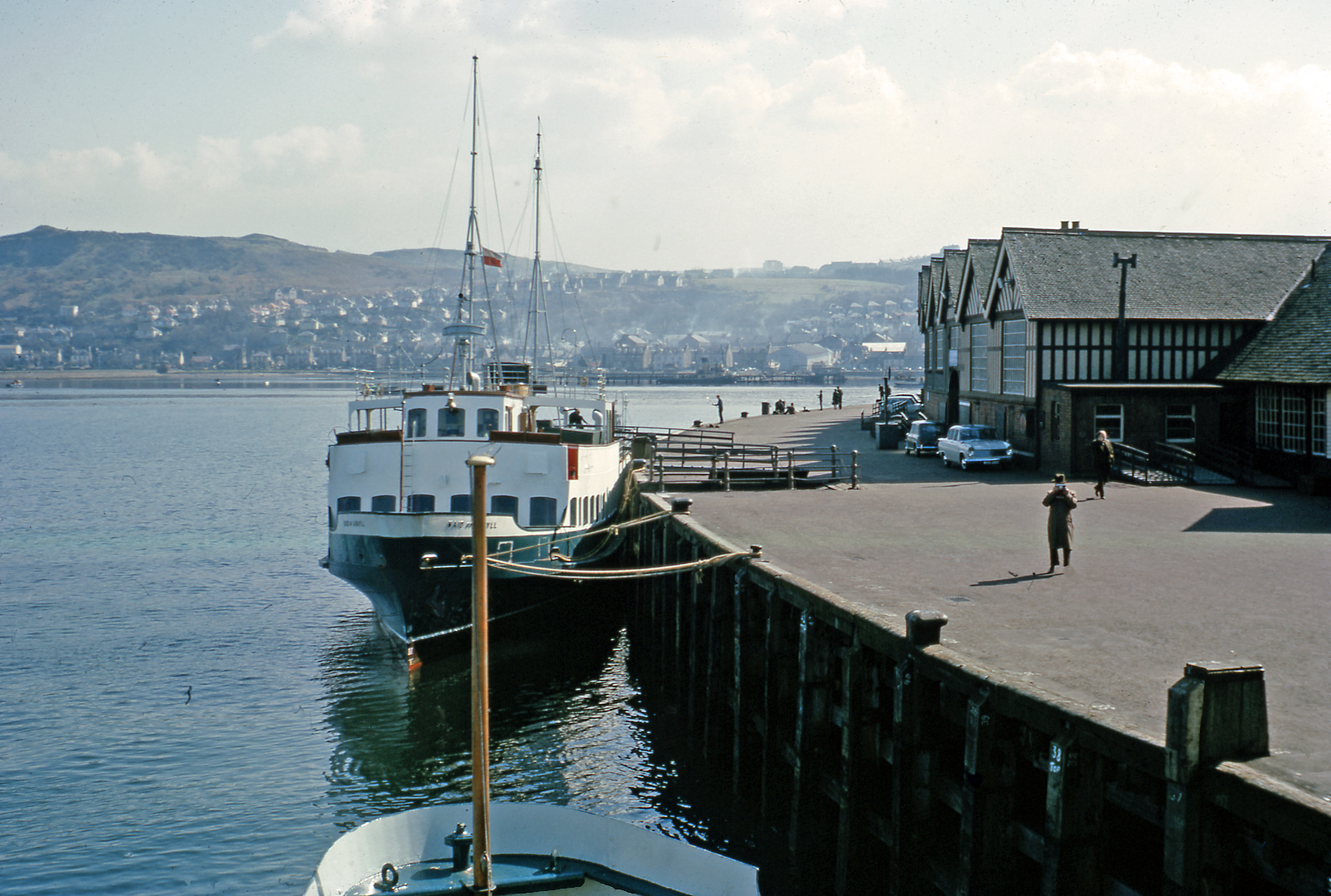 Across the bay from Gourock Pier to Fort Matilda, 1966. Eastward view, with the Maid of Argyll Caledonian Steam Packet Company Clyde Ferry at the pier.